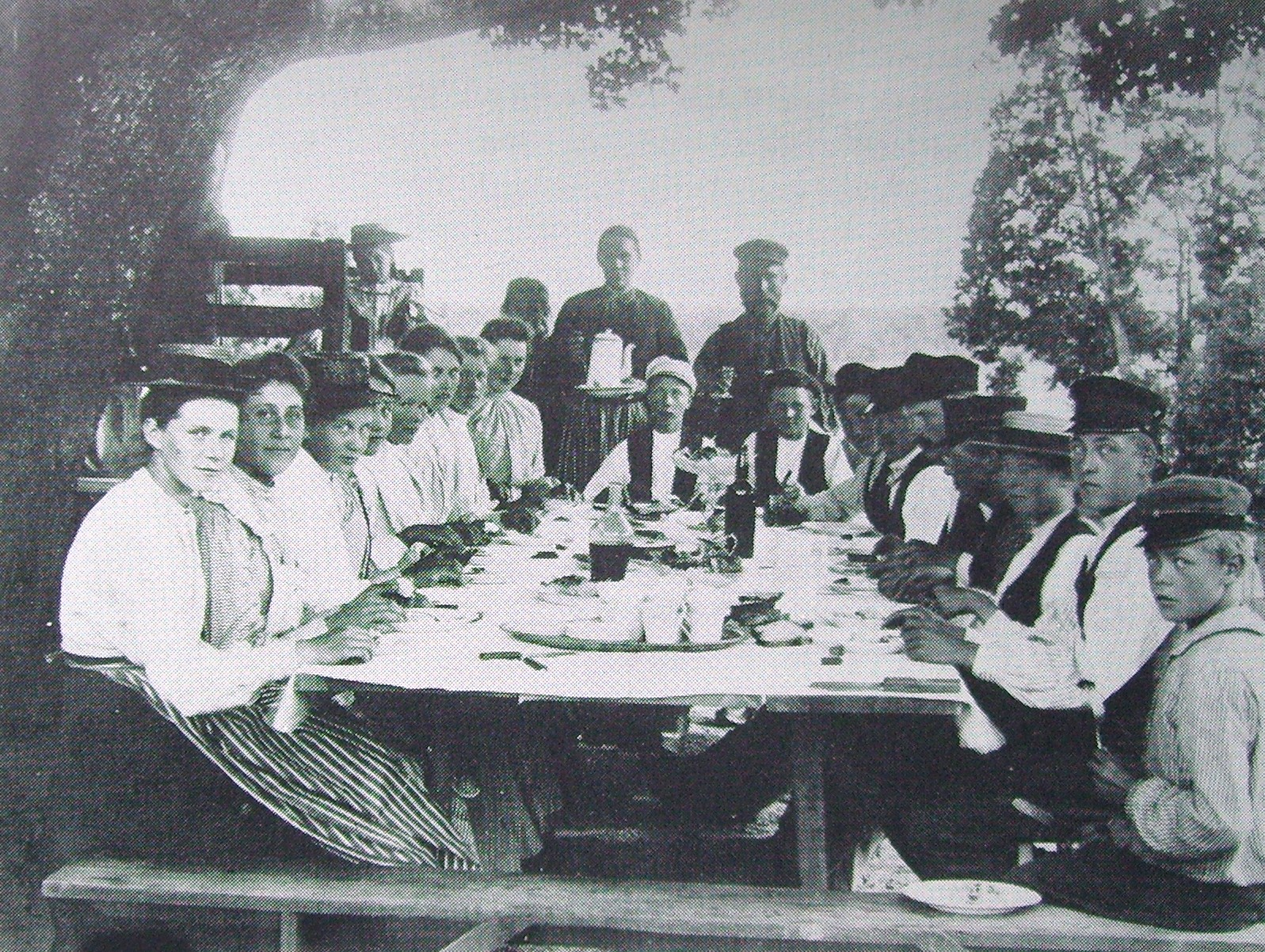 Picture of party in Rössjöholm in Tossjö in the beginning of 1900s